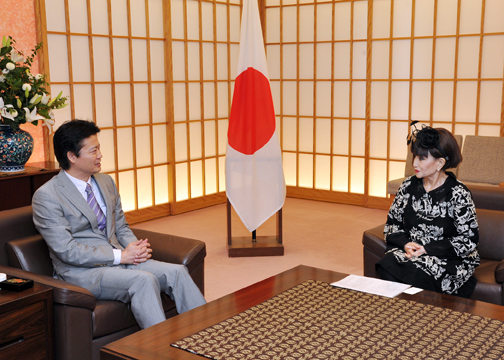 Tetsuko Kuroyanagi, Goodwill Ambassador of the United Nations Childrens' Fund, talked with Kōichirō Gemba, Minister for Foreign Affairs, at the Ministry of Foreign Affairs in Tōkyō Metropolis on July 5, 2012.